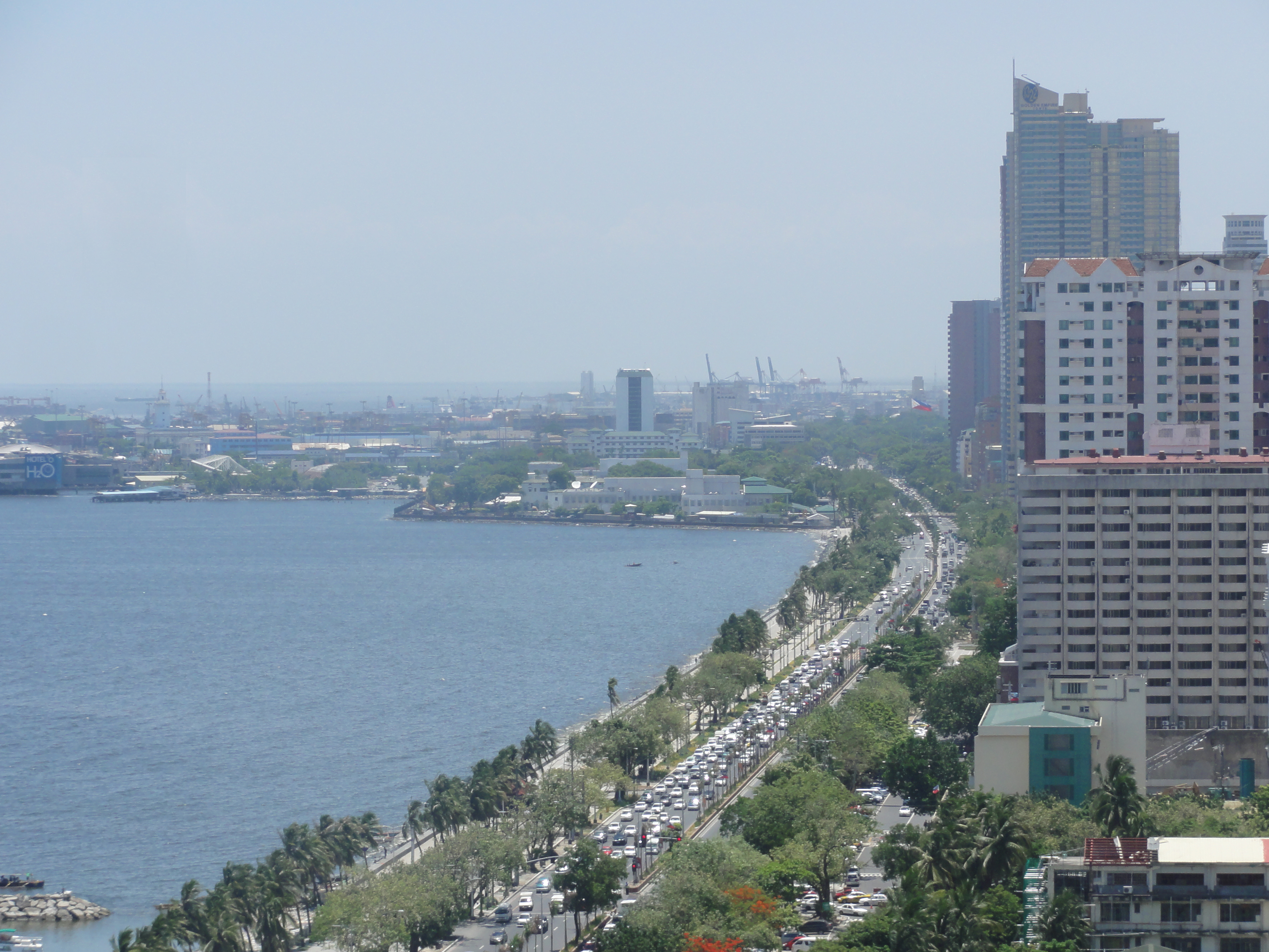 Top view of Roxas Boulevard (with Manila Bay) in Ermita and Malate, Manila as of June 2015.